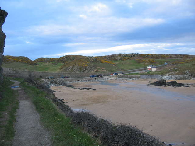 Porth Dafarch A view looking to the northeast from the Coastal Path over the sands of Porth Dafarch towards the parking area and slipway.